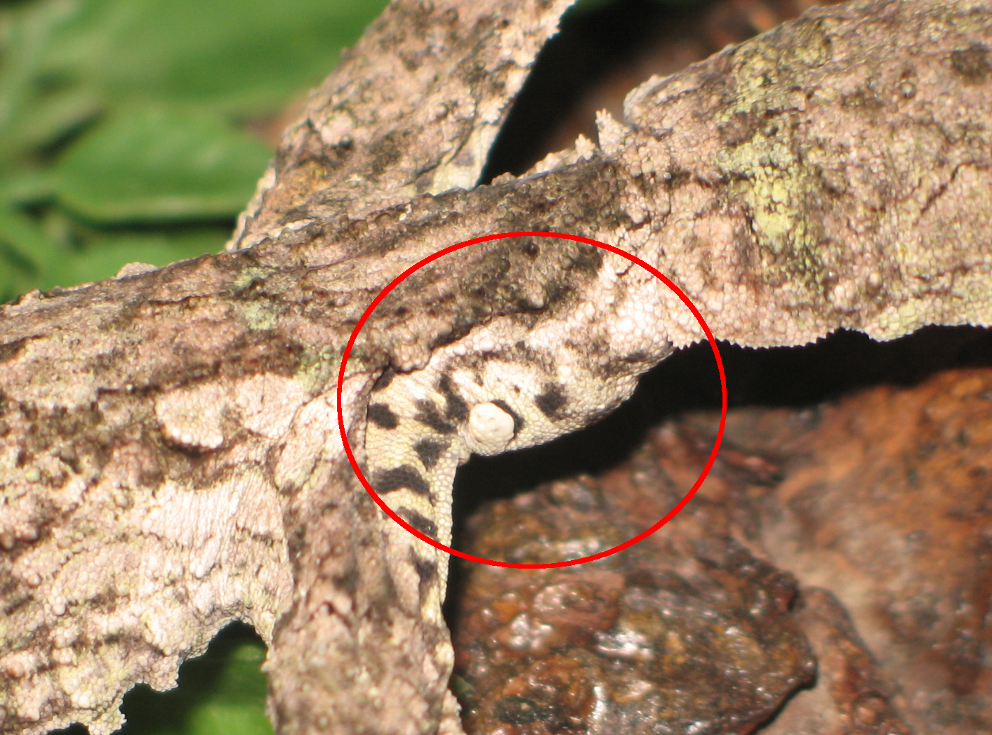 Hemipenis of a Uroplatus sikorae (gecko).